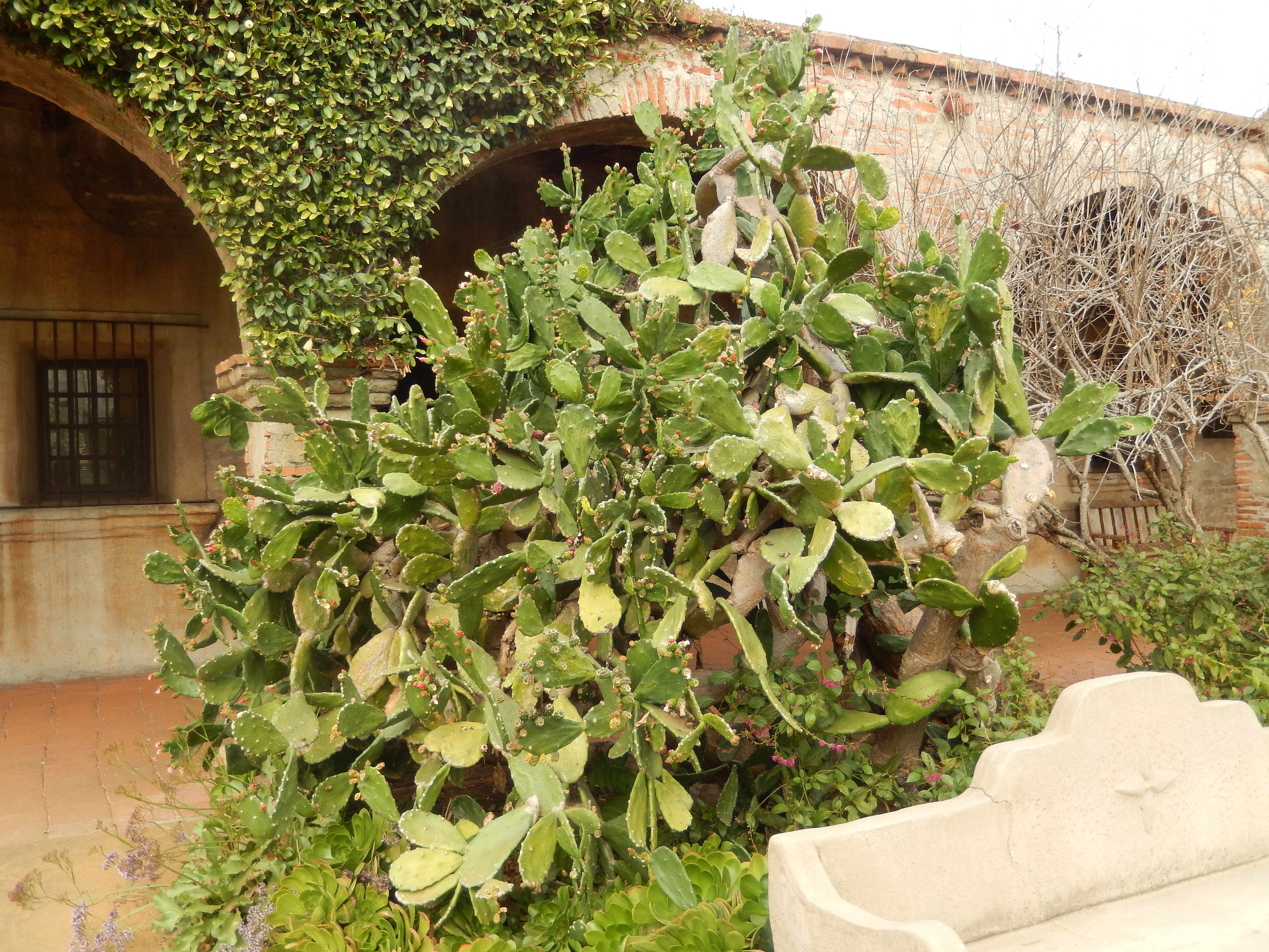 I took photo of cactus at San Juan Capistrano Mission in CA, with Nikon camera.